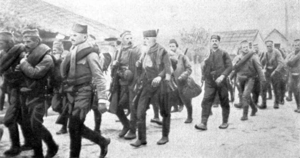 “Our Chetnik detachments march to protect the border.”